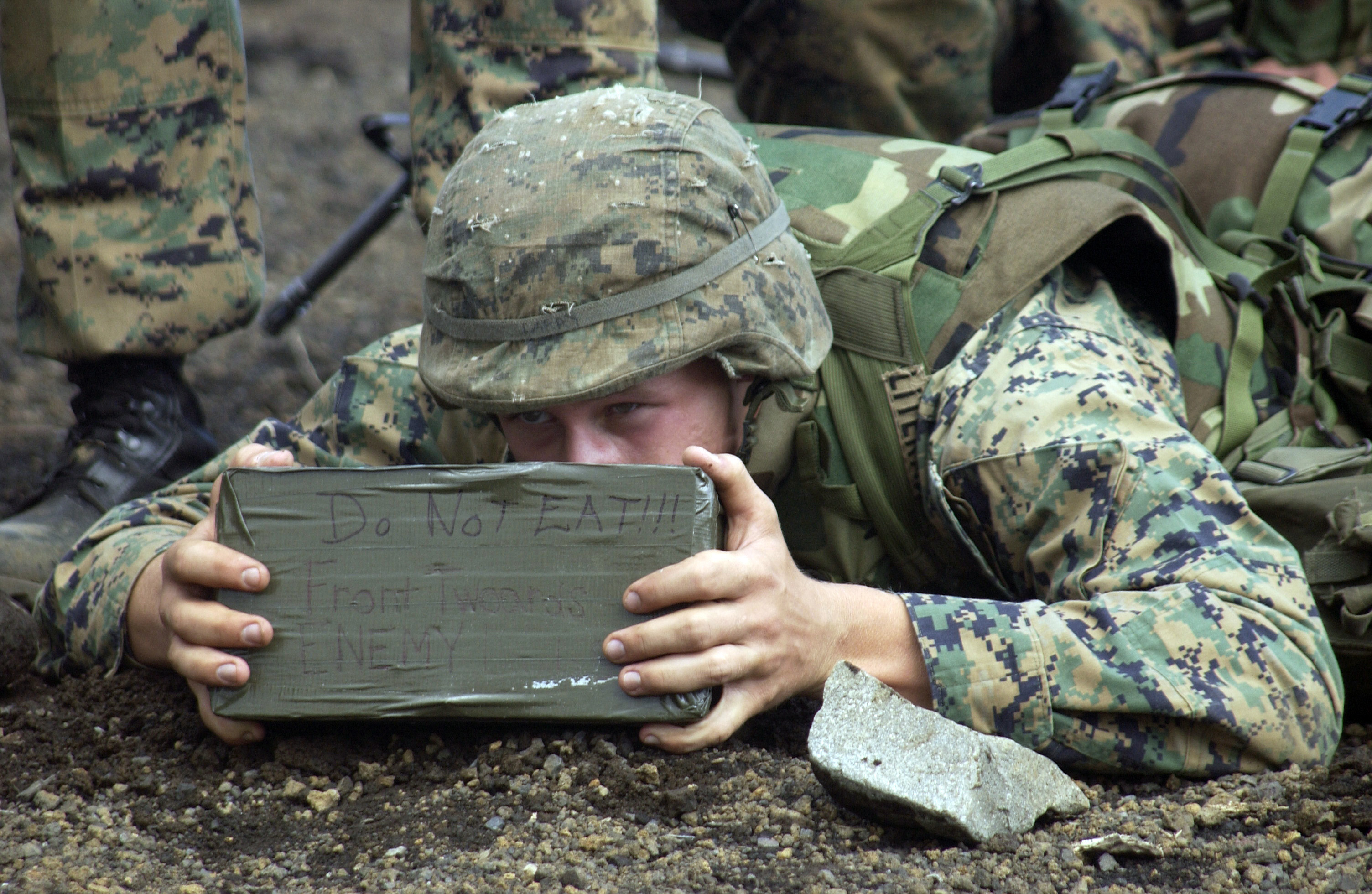 CAMP FUJI (Oct. 10, 2004) US Marine Corps (USMC) Lance Corporal (LCPL) Timothy W. Literal, Combat Engineer Company, 4th Platoon (PLT), Combat Assault Battalion (CAB), 3rd Marine Division (MARDIV), sets up a field expedient M18A1 Claymore Anti-personnel Mine in front of a target at a demolition range in the Camp Fuji Maneuvering Area in order to test its effectiveness. The CAB is deployed to Camp Fuji for field training during Exercise Fuji 05-1.